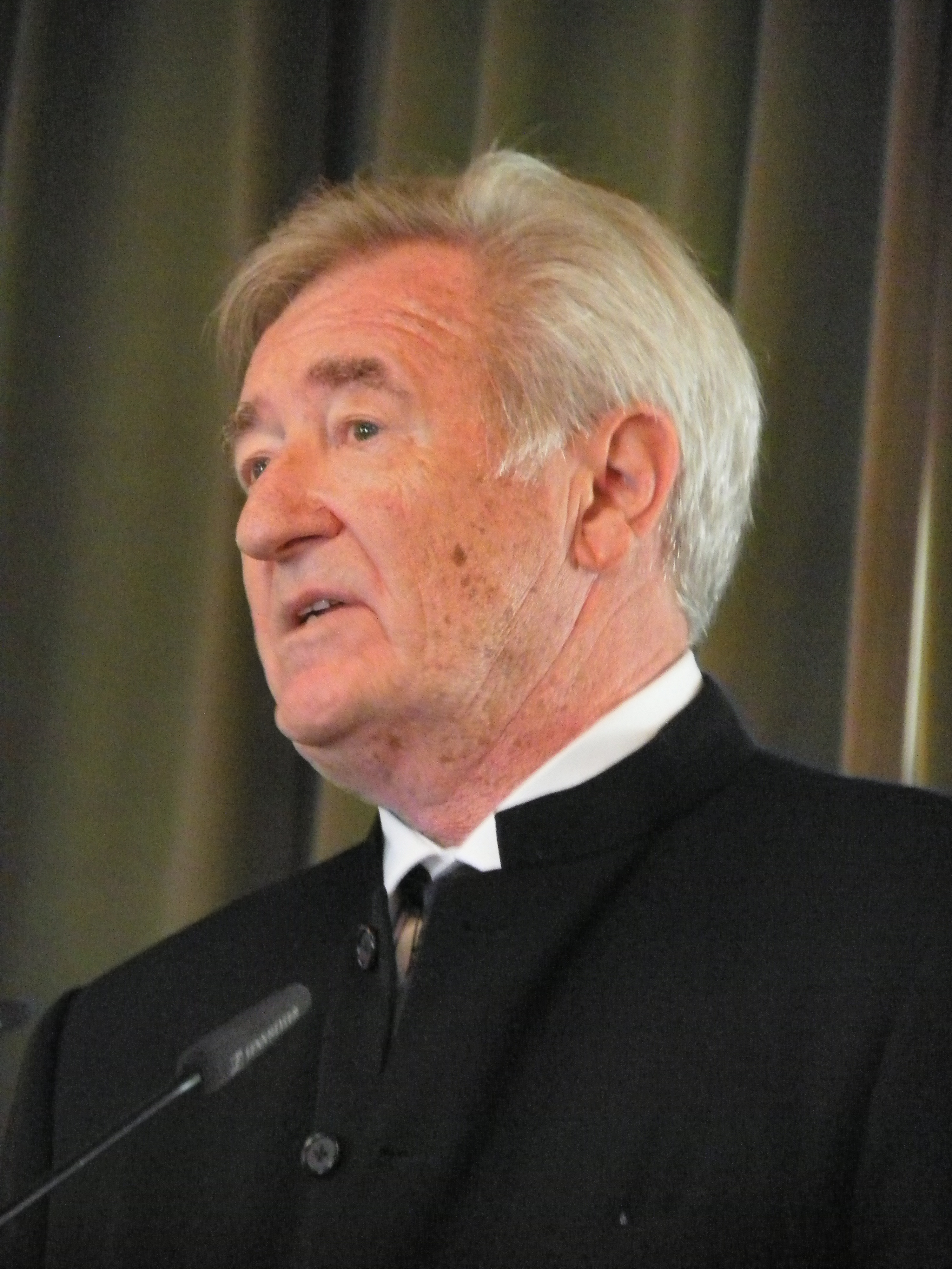 Wojciech Leśnikowski (1938–2014), a Polish–American architect, writer and educator, at the Wielopolscy Palace in Cracow, giving a speech after receiving Cracow Laurel Award.